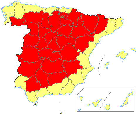 Central area of Iberian peninsula.